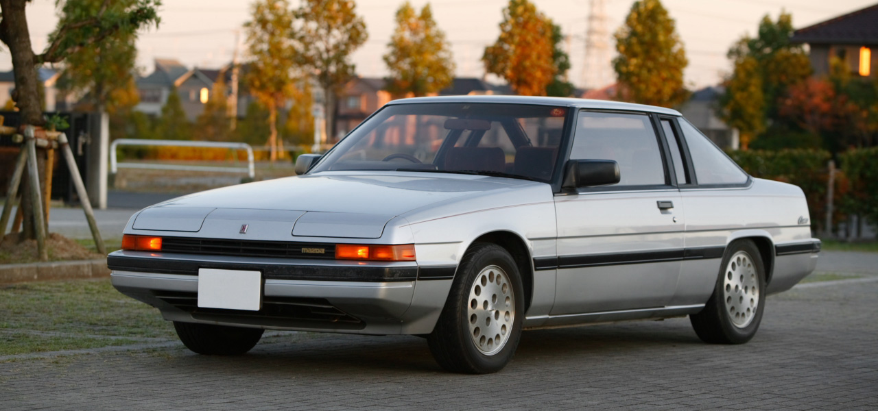 Mazda Cosmo, third generation ( HB ).